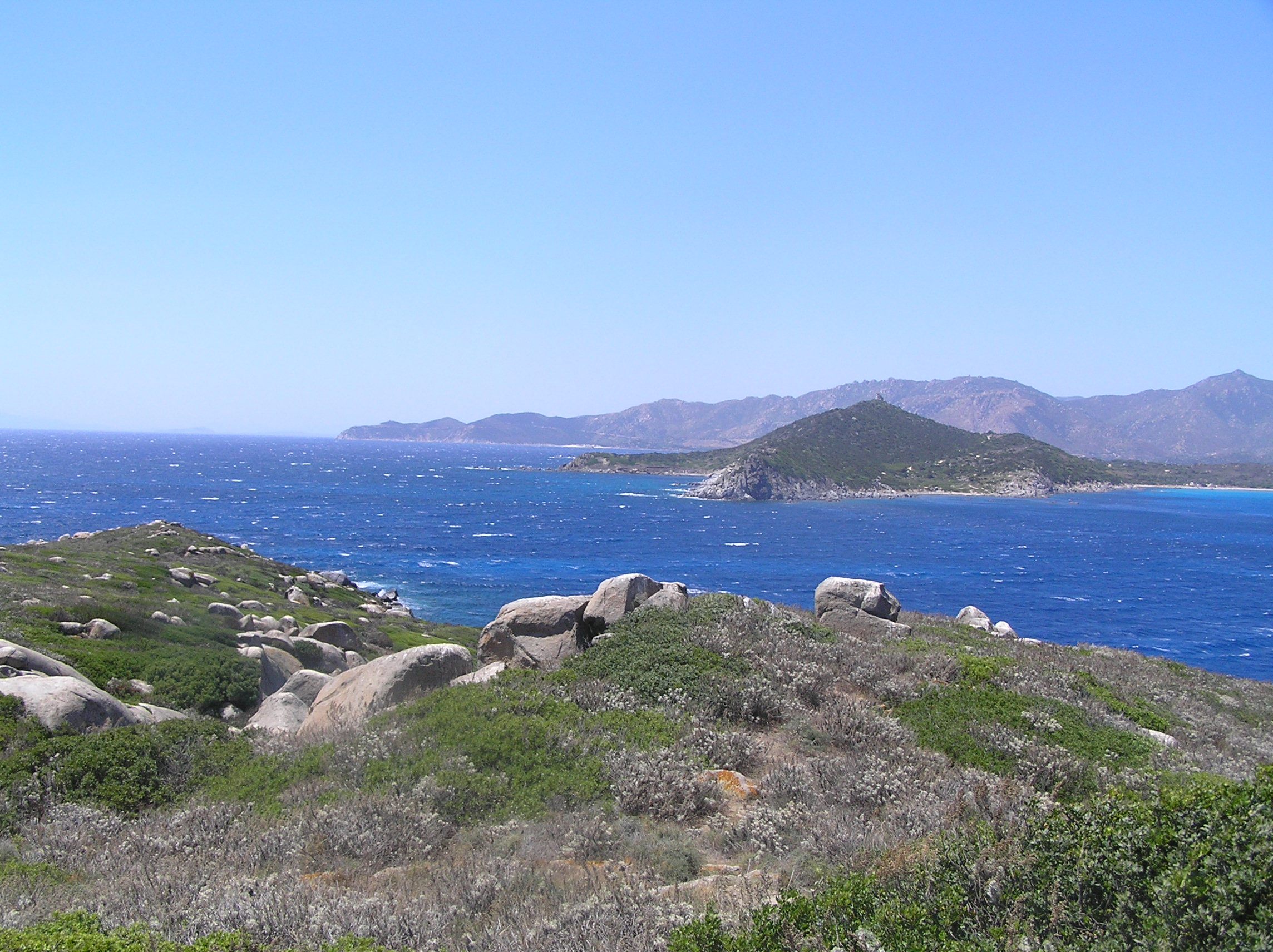 South side of Cape Carbonara, Sardinia, Italy.